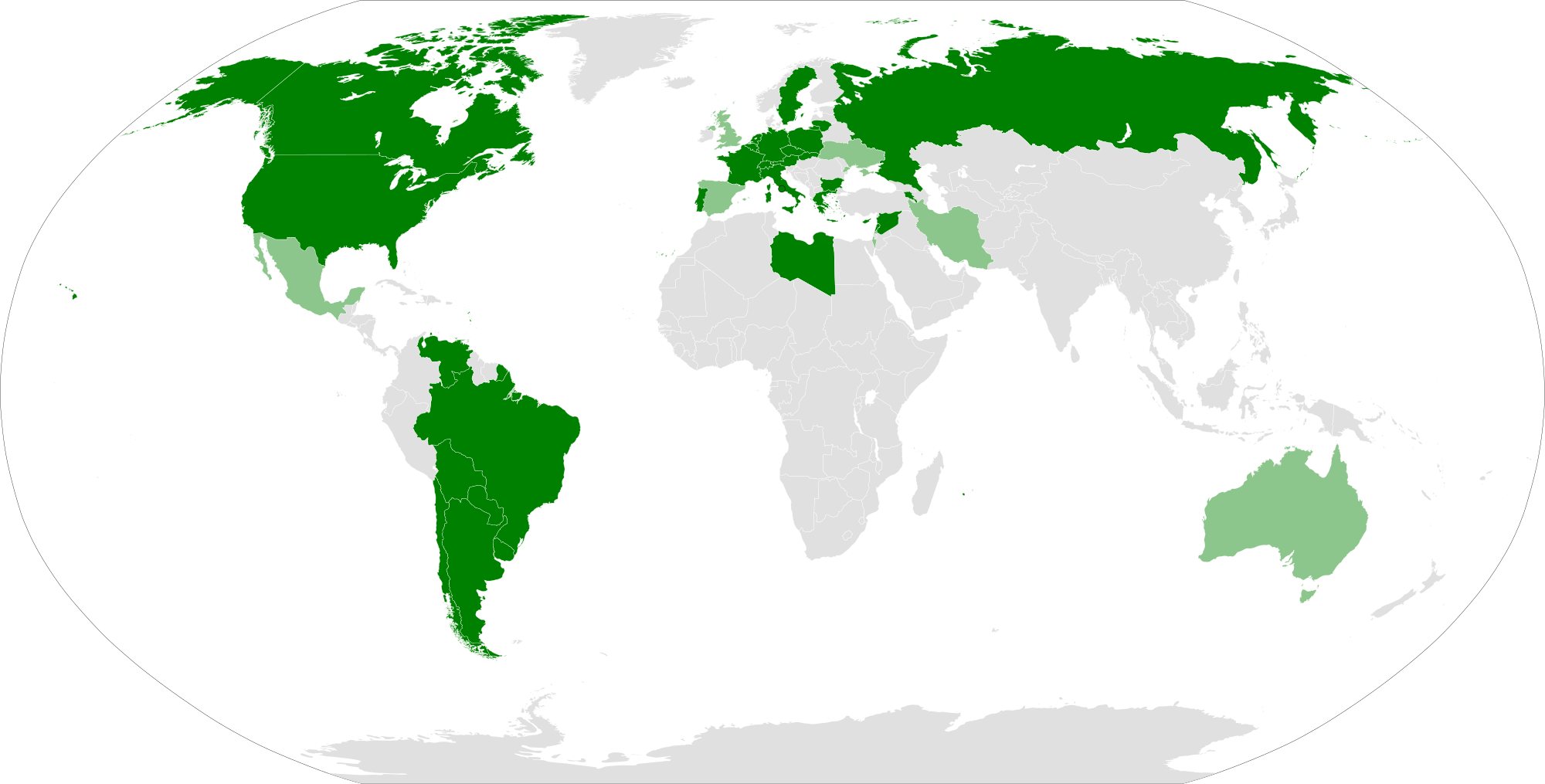 Political map showing countries which have described the Armenian Genocide with laws or resolutions. Green: national parliament. Light green: local parliament. Modified from a public domain image (Image:BlankMap-World.png).